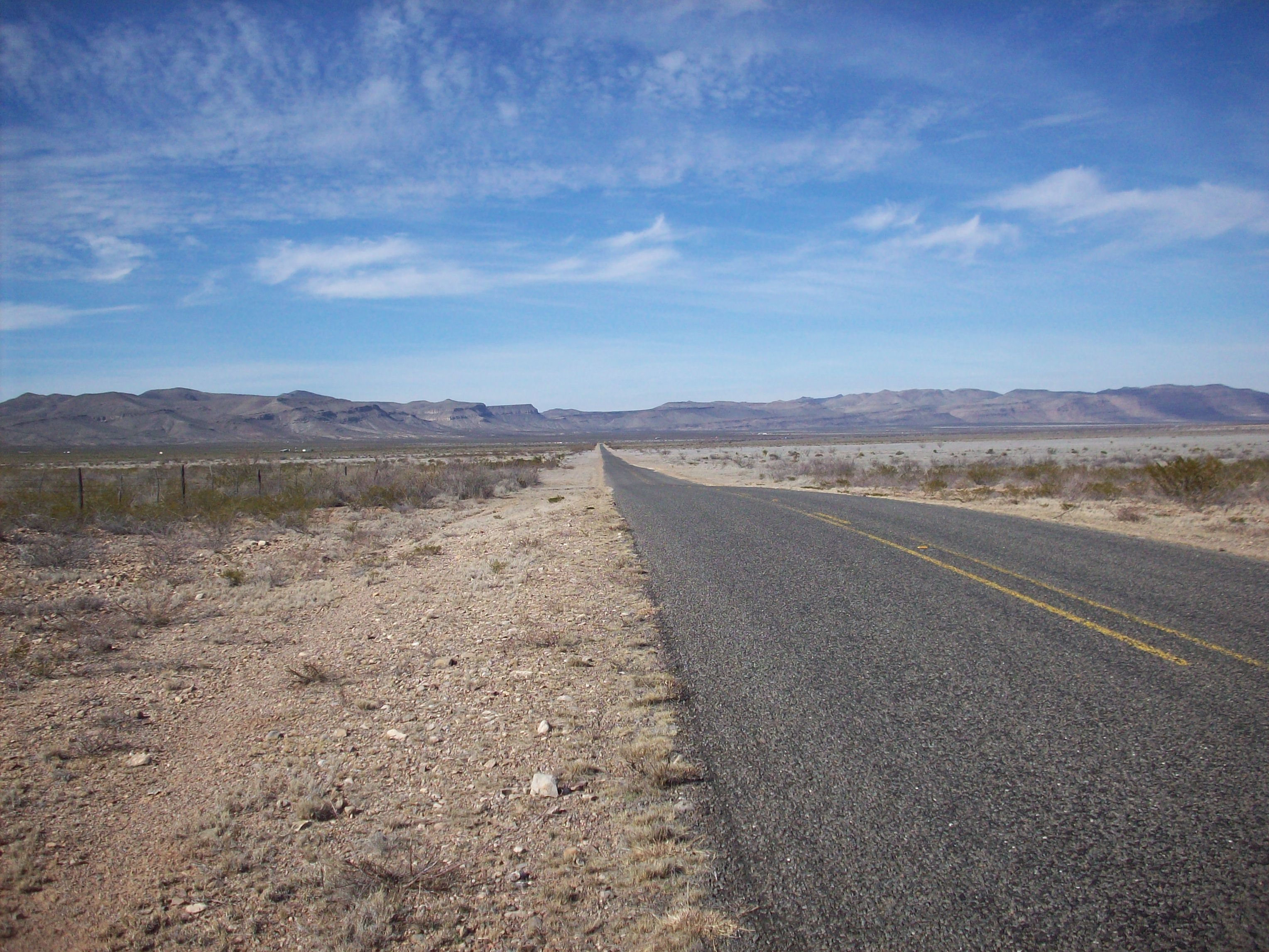 Farm to Market Road 2017 in Jeff Davis County looking north. The Sierra Vieja is the mountain range in the distance.